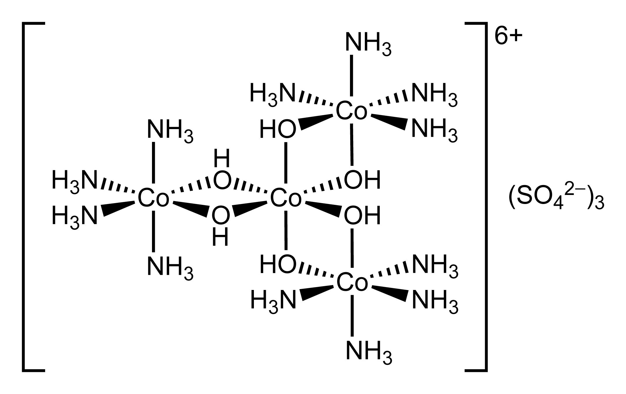 Structural formula of hexol, [Co4H42N12O6][SO4]3, based on diagrams in Chem. Commun. (2004) 2322–2323 and on page 915 of Greenwood, N. N.; Earnshaw, A. (1997) Chemistry of the Elements (2nd ed.), Oxford:Butterworth-Heinemann ISBN: 0-7506-3365-4. Structure drawn in ChemBioDraw Ultra 12.0.